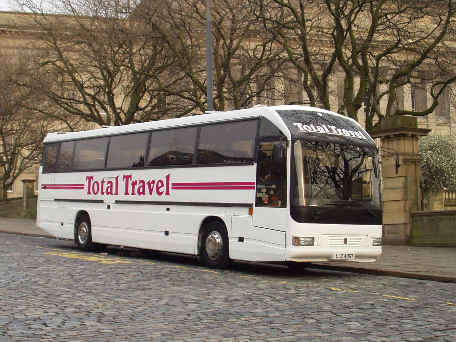 Duple 425 coach in Liverpool